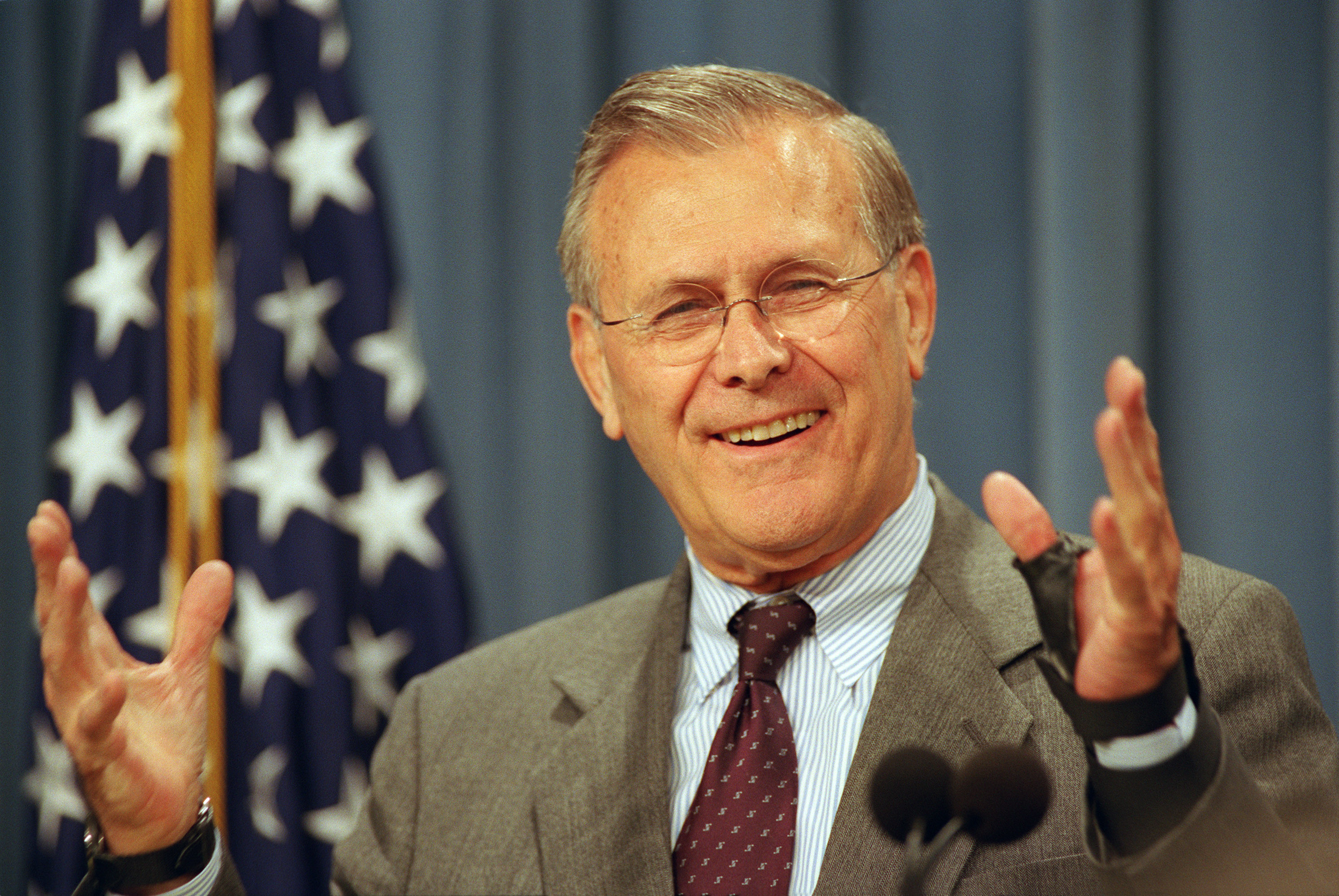 Secretary of Defense Donald H. Rumsfeld responds to a reporter's question during the Sept. 3, 2002, Pentagon press briefing. Rumsfeld and Gen. Richard Myers, chairman of the Joint Chiefs of Staff, briefed reporters on events in Afghanistan and the war on terrorism.